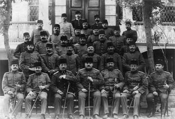 Mesopotamian campaign; staff of 6th army